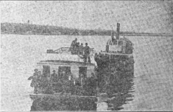 Steamer T.M. Richardson, with passenger barge, in Yaquina Bay, image published June 1907.